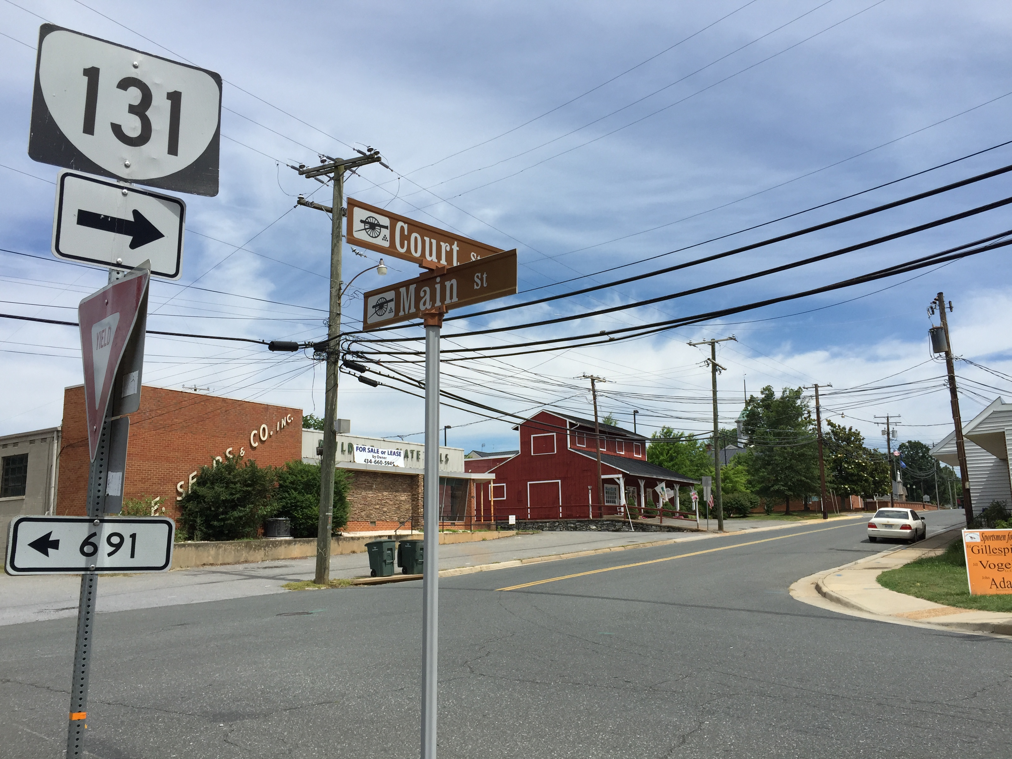 View north along Virginia State Route 131 as it turns right from Main Street onto Court Street in Appomattox, Appomattox County, Virginia